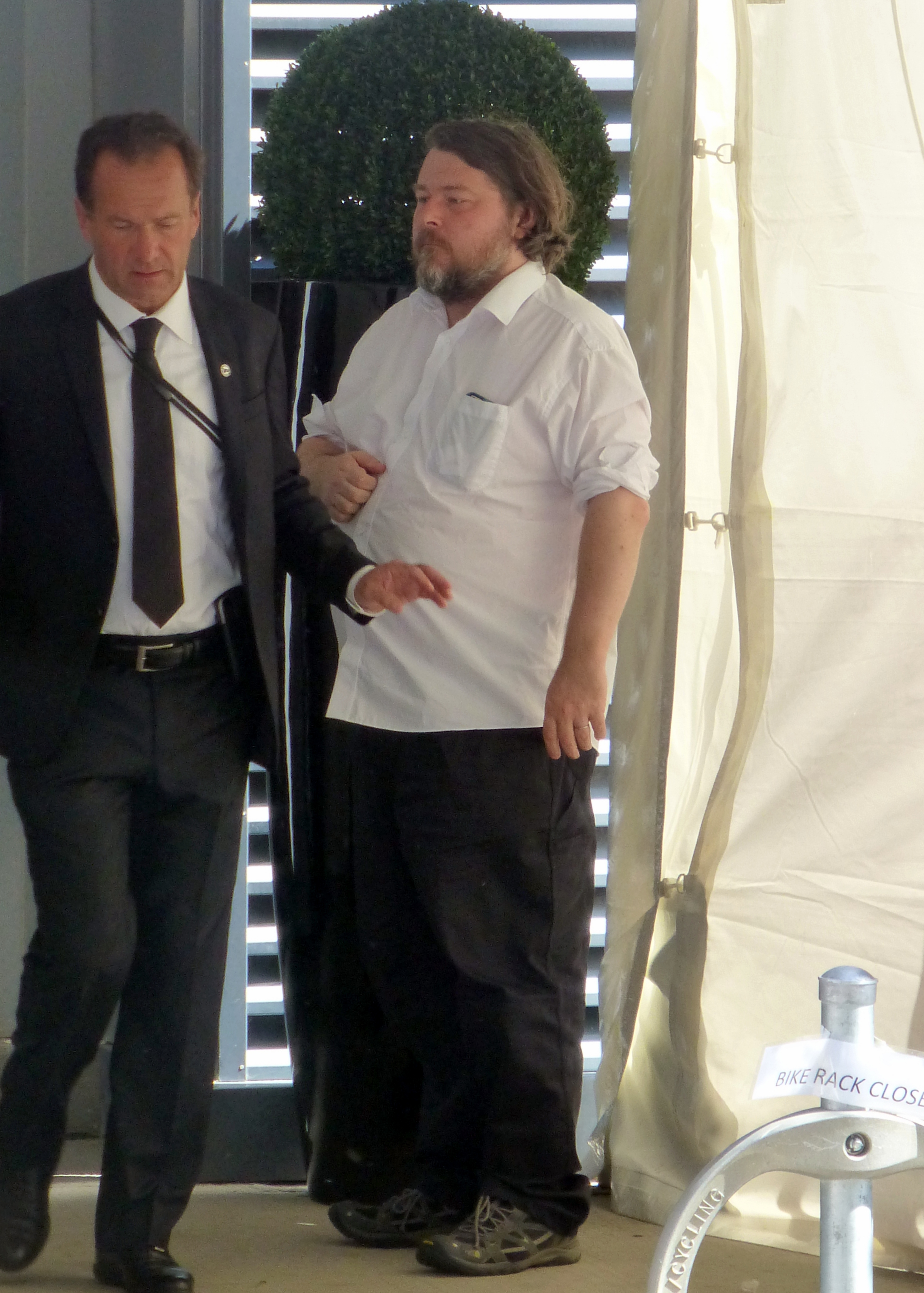 Ben Wheatley at the premiere of High Rise, 2015 Toronto Film Festival